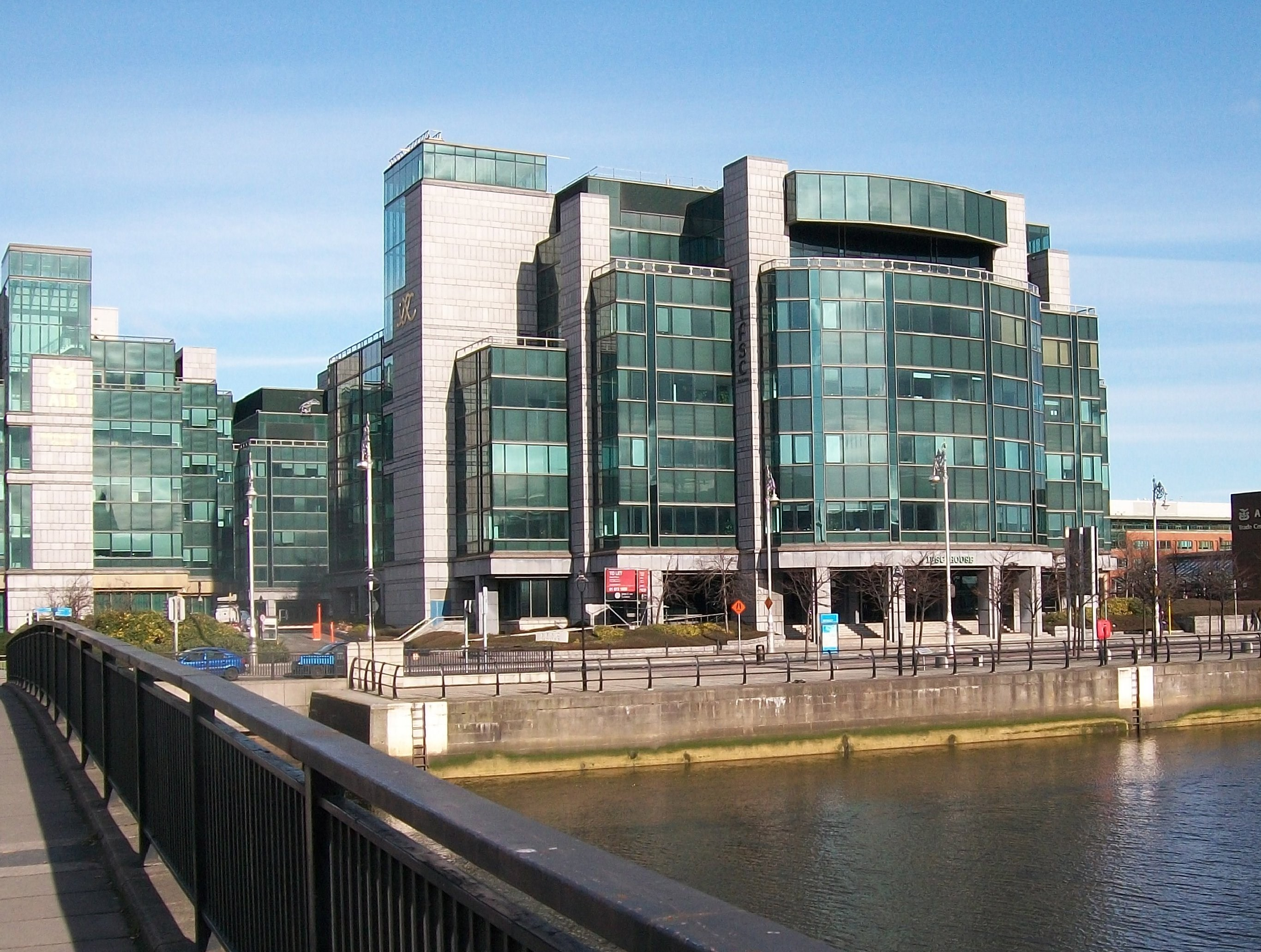 The Irish Financial Services Centre on Custom House Quay This image was taken from the Talbot Memorial Bridge.